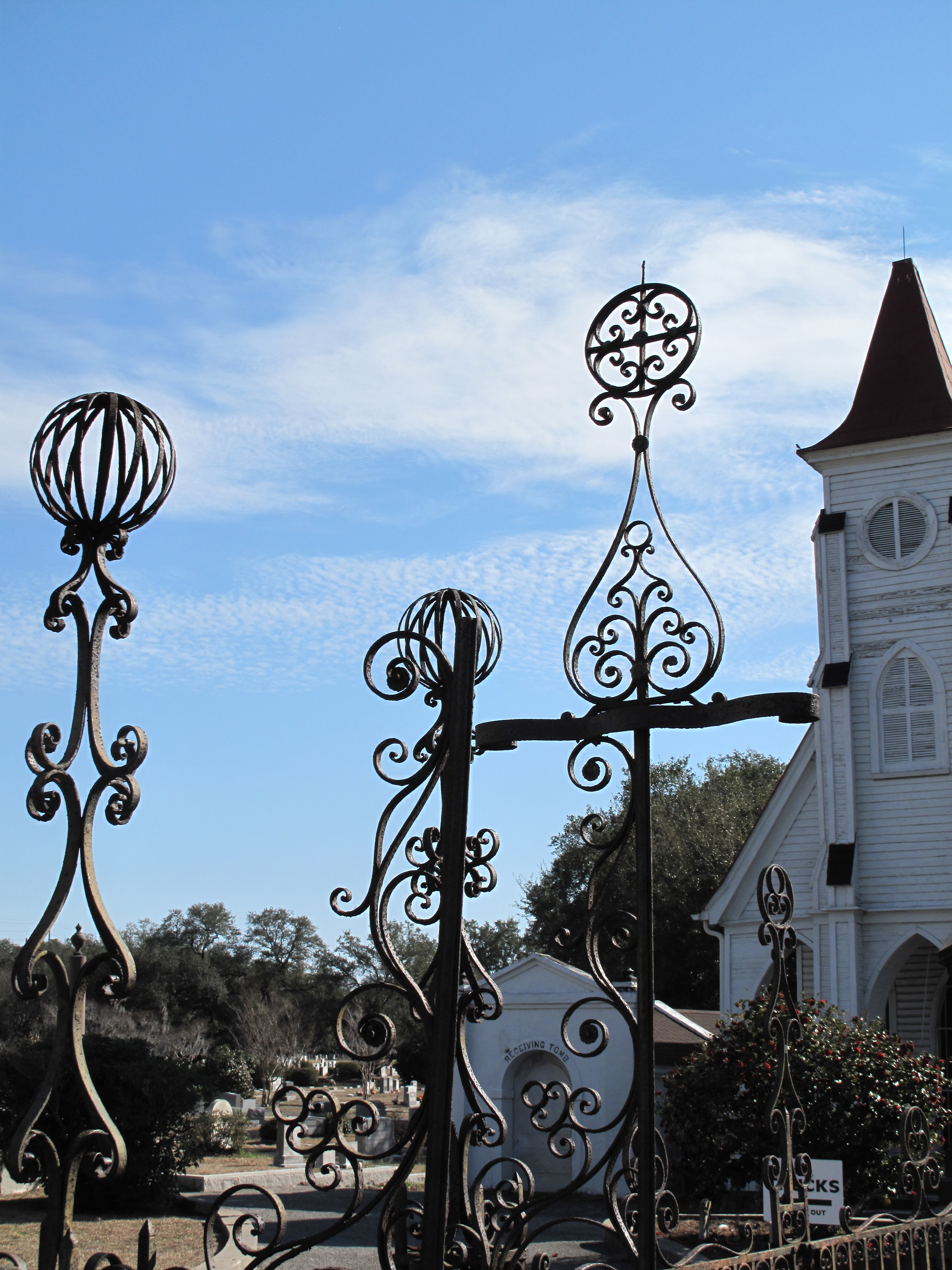 These gates and fence surround a plot shared by 12 families. The work is by Christopher Werner who is most known for the Sword Gates and the Palmetto Regiment monument on the State House grounds in Columbia, South Carolina.